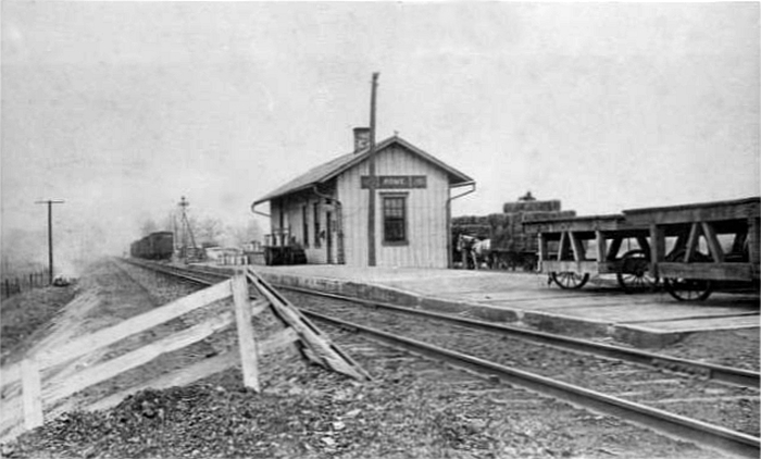 Train station in Rome, Ohio.